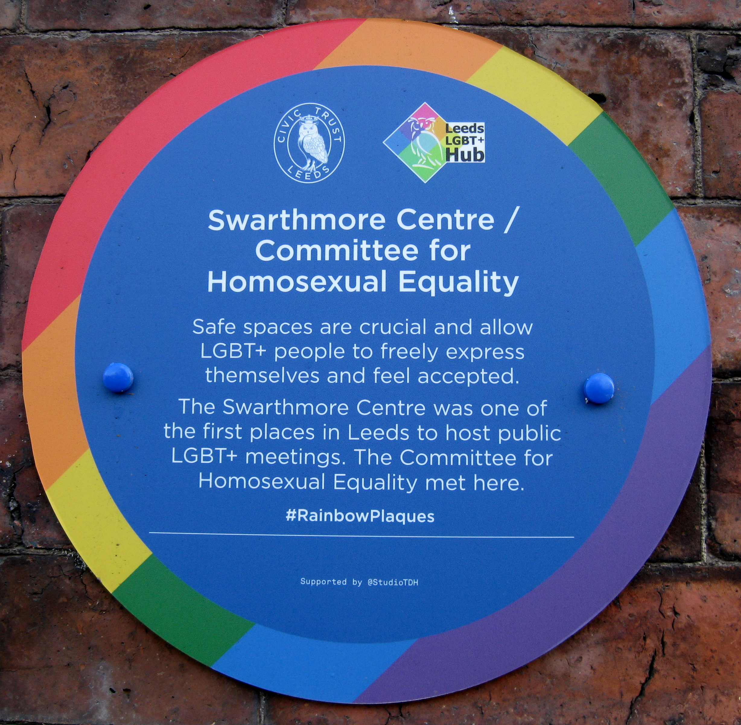 Rainbow Plaque on the Swarthmore Centre, near the main entrance on Woodhouse Square, Leeds LS3 1AD